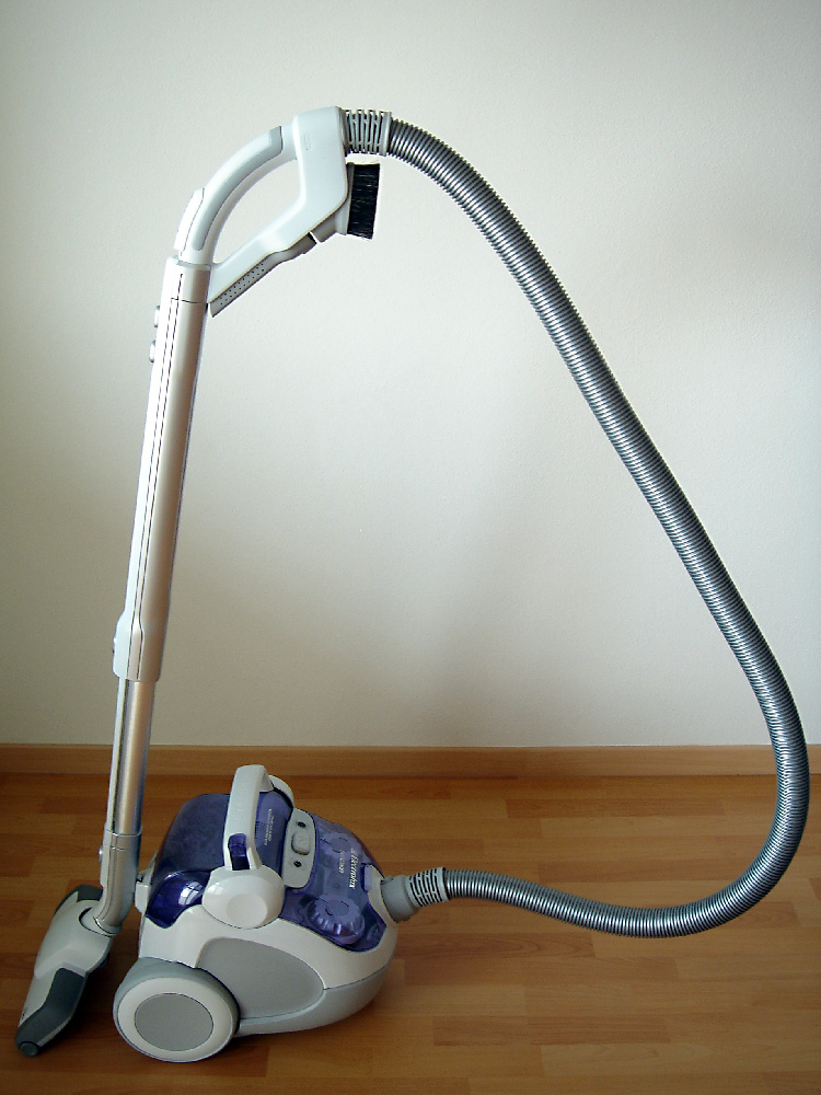 Cyclonic Cylinder from Electrolux.